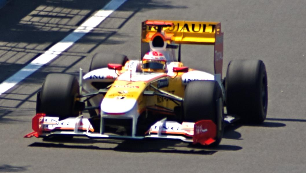 Fernando Alonso driving for Renault F1 at the 2009 European Grand Prix.